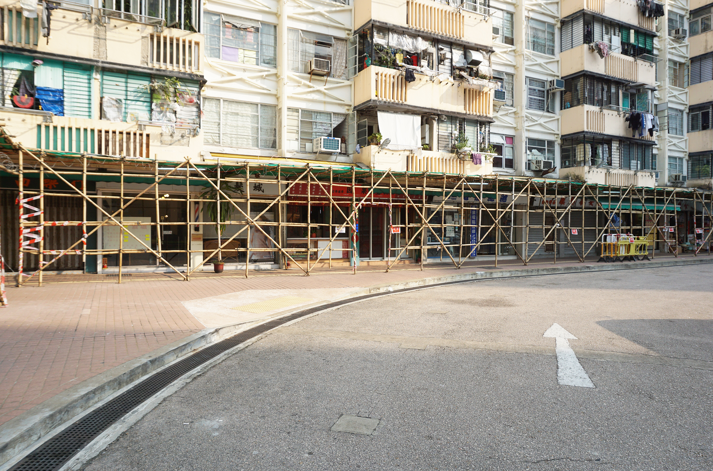 Wo Lok Estate in Kwun Tong, Hong Kong.